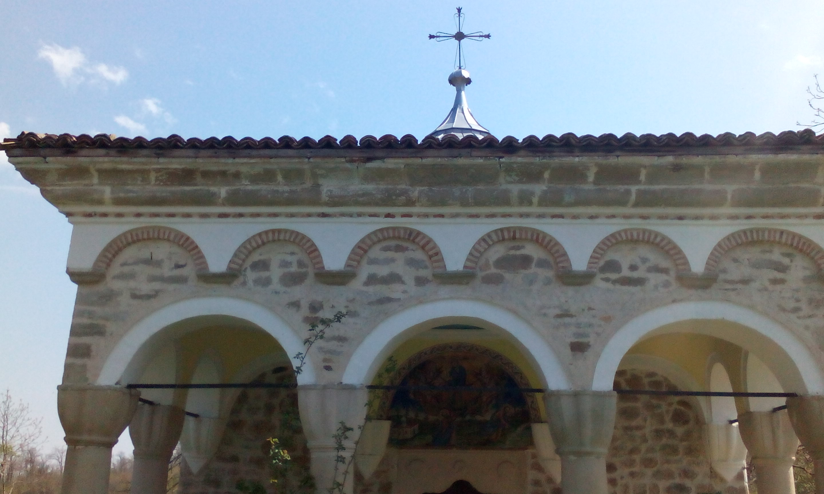 Plakovski Monastery